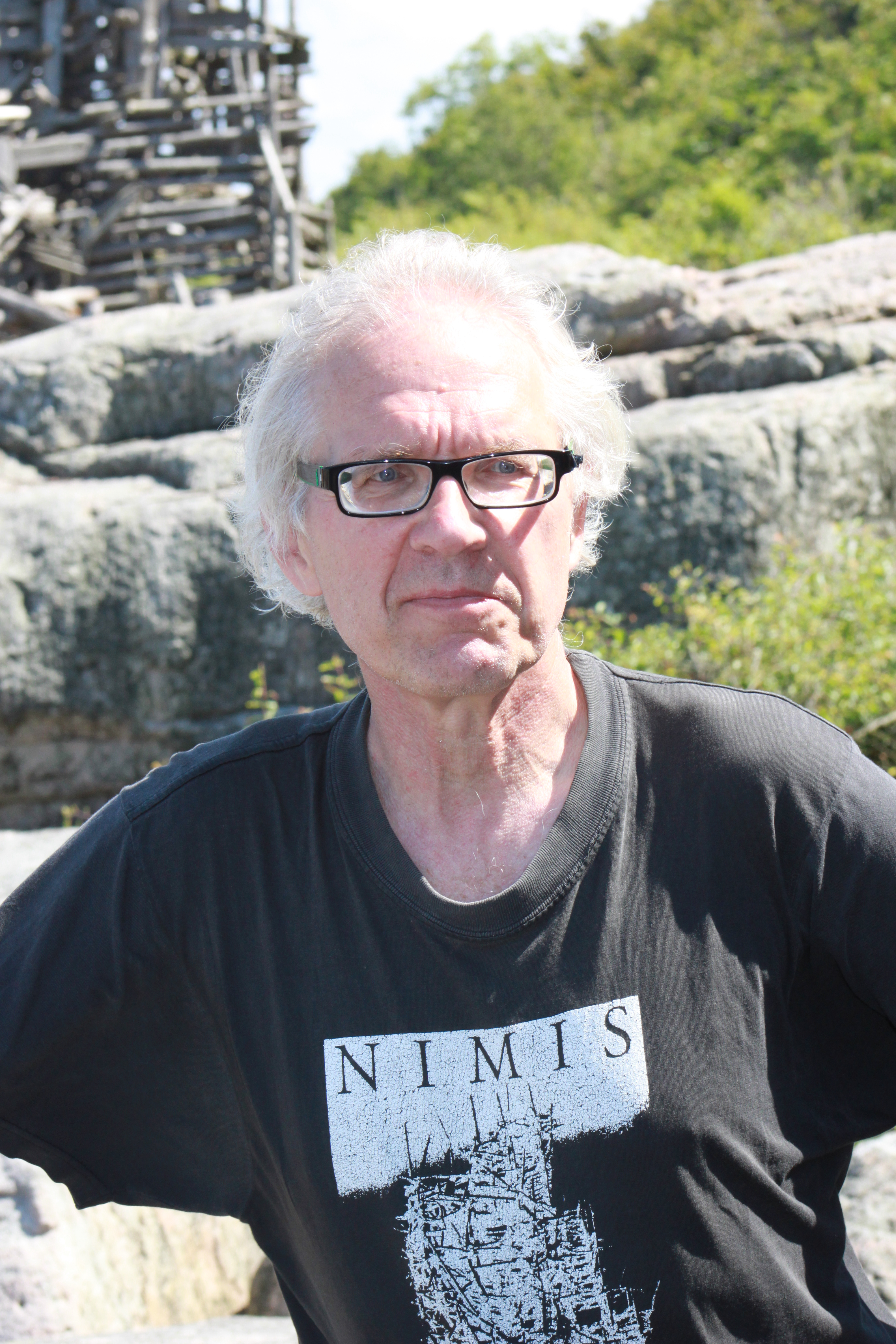 Lars Vilks. Taken at the site of Nimis July 12 2011.